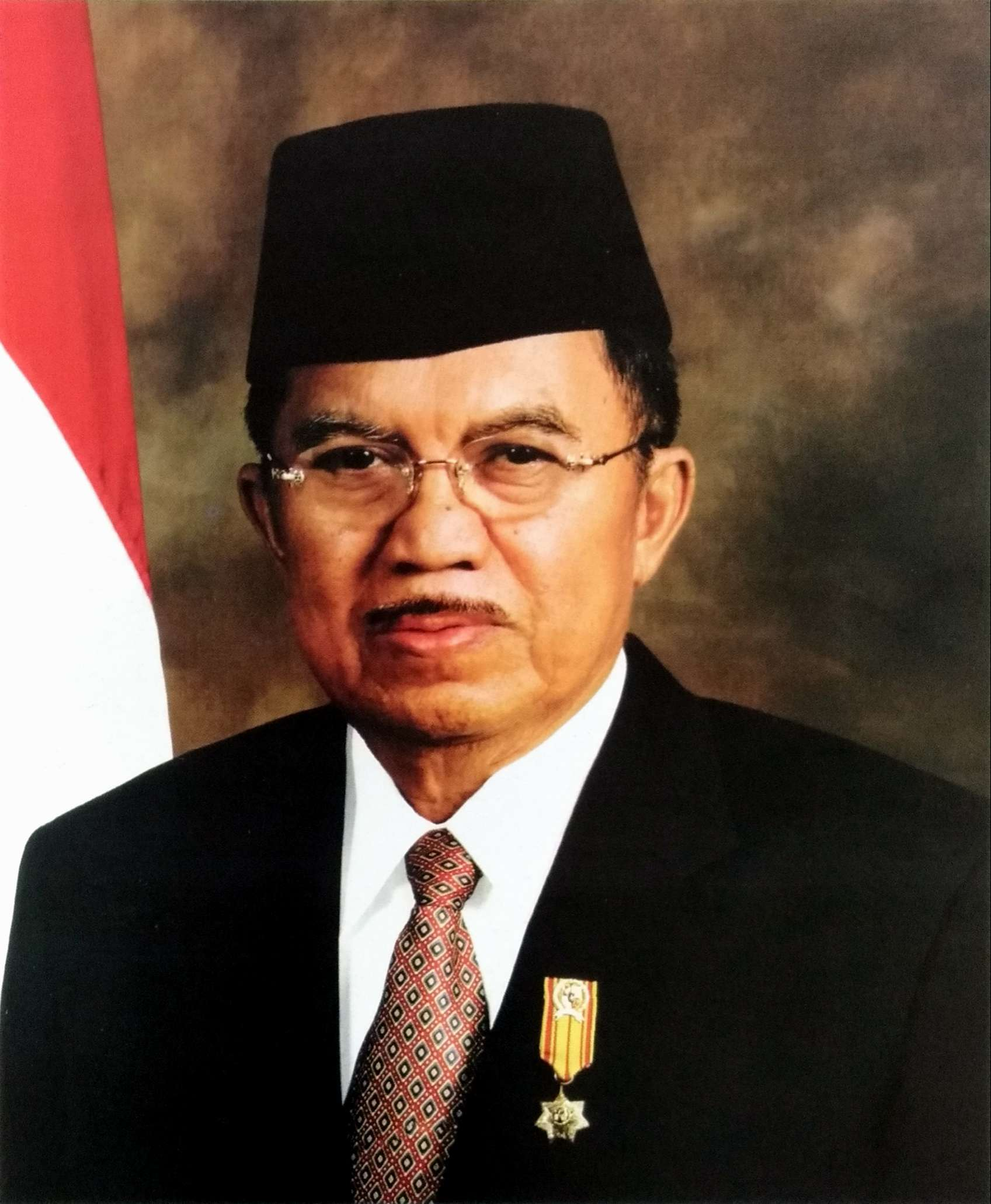 Portrait of Jusuf Kalla, The 10th Vice President of Republic of Indonesia 2004-2009